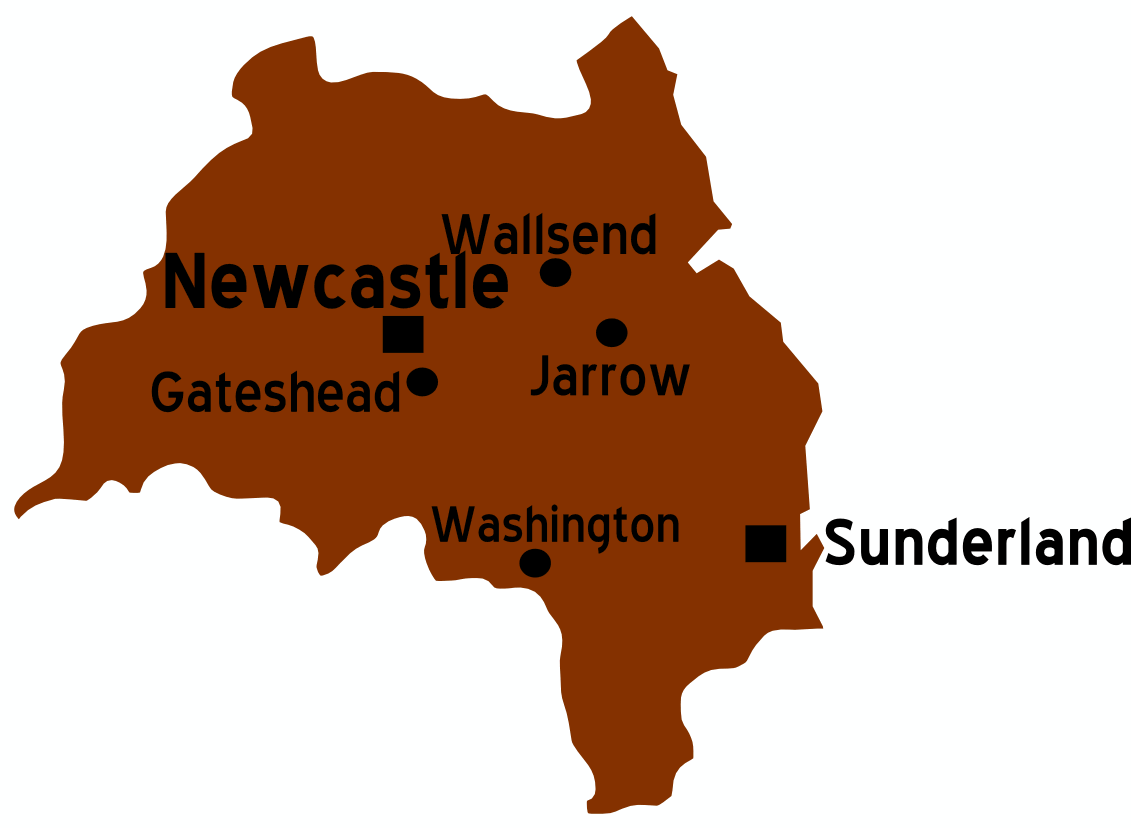 Map of Tyne and Wear Source: :Image:UK map.svg map: United Kingdom Map of: United Kingdom